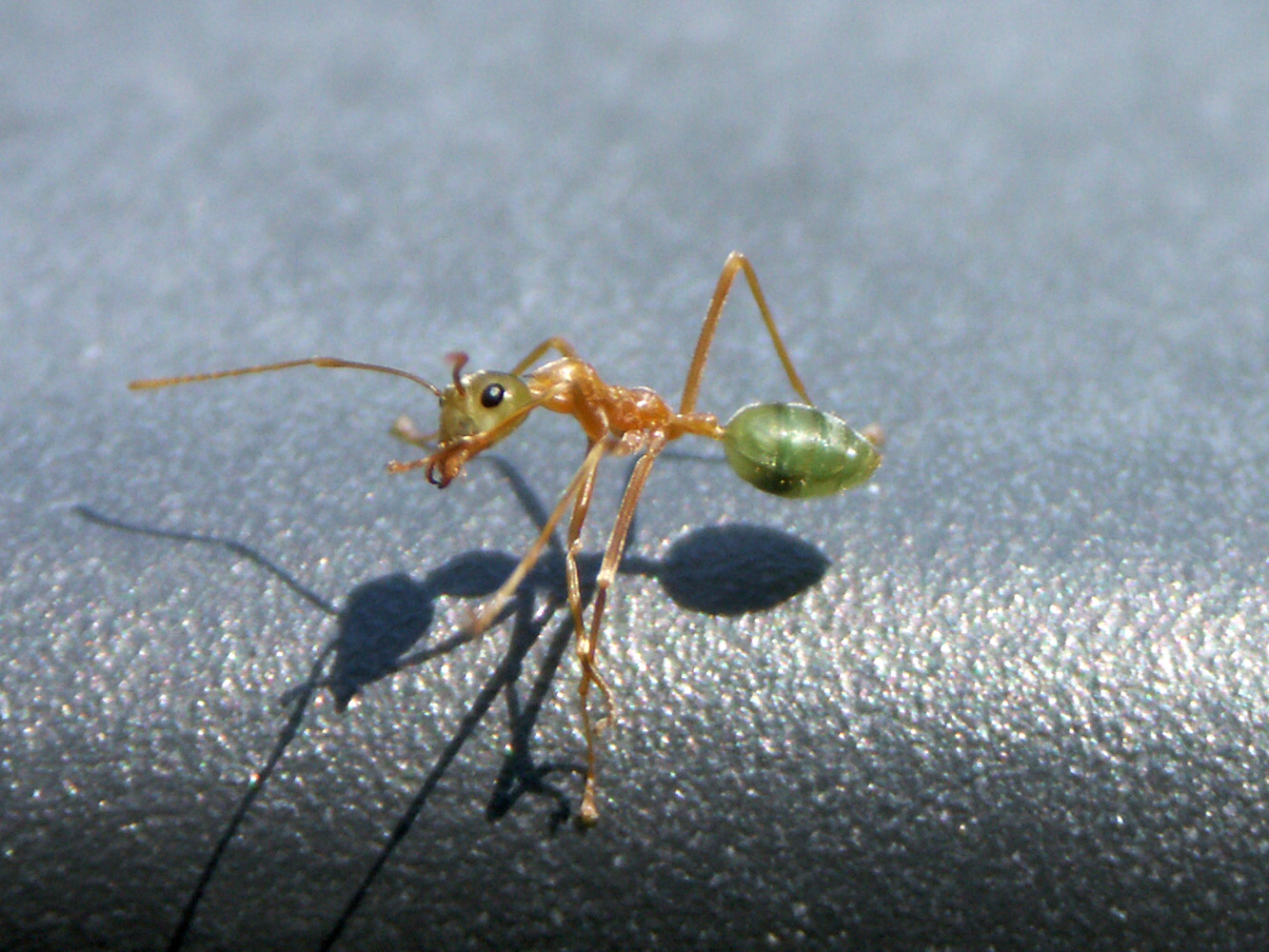 Green Tree Ant (Oecophylla smaragdina) - Near Cape Tribulation - Queensland - Australia